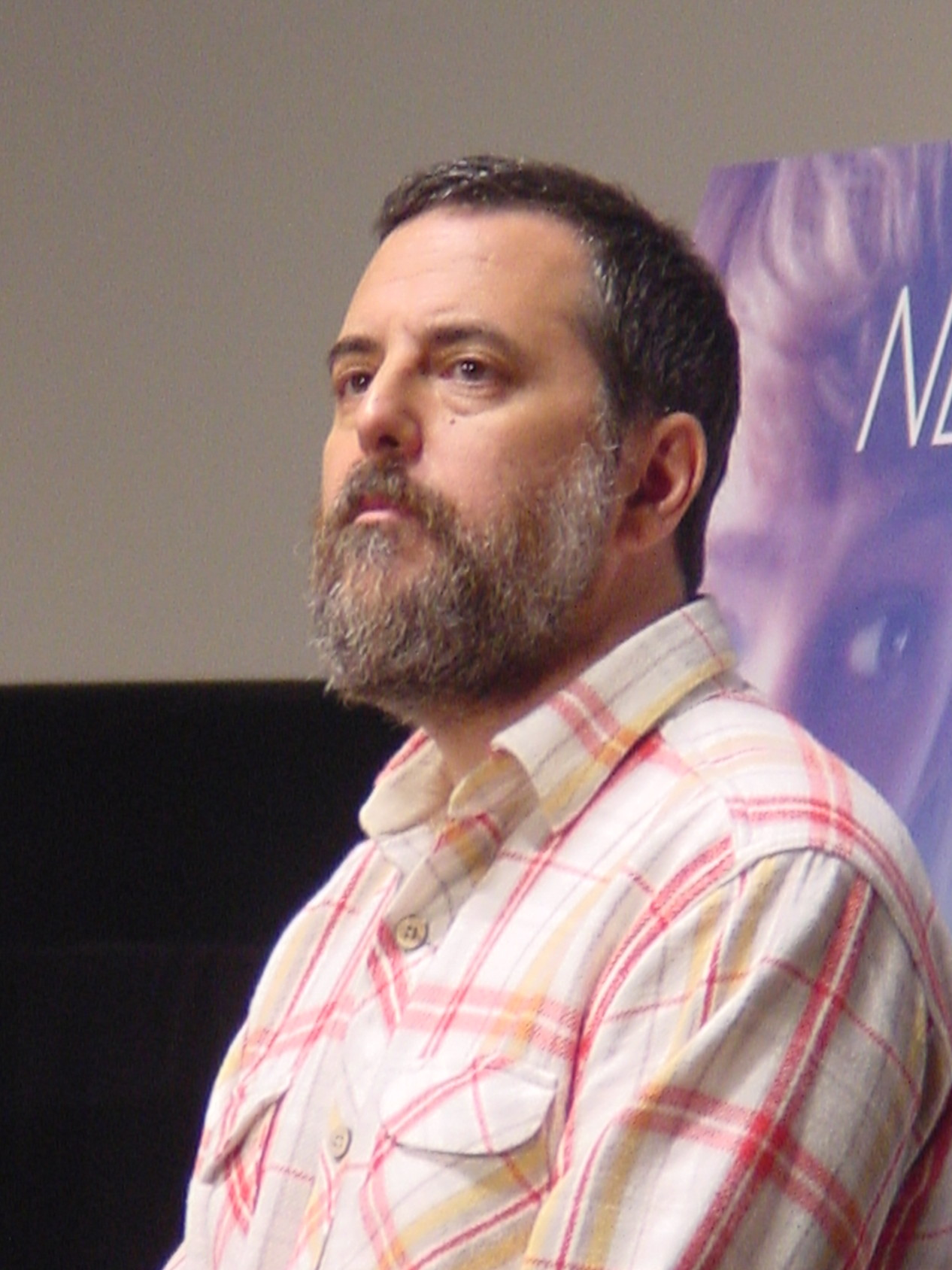 American film director Mark Romanek at the Tokyo international Film Festival 2010